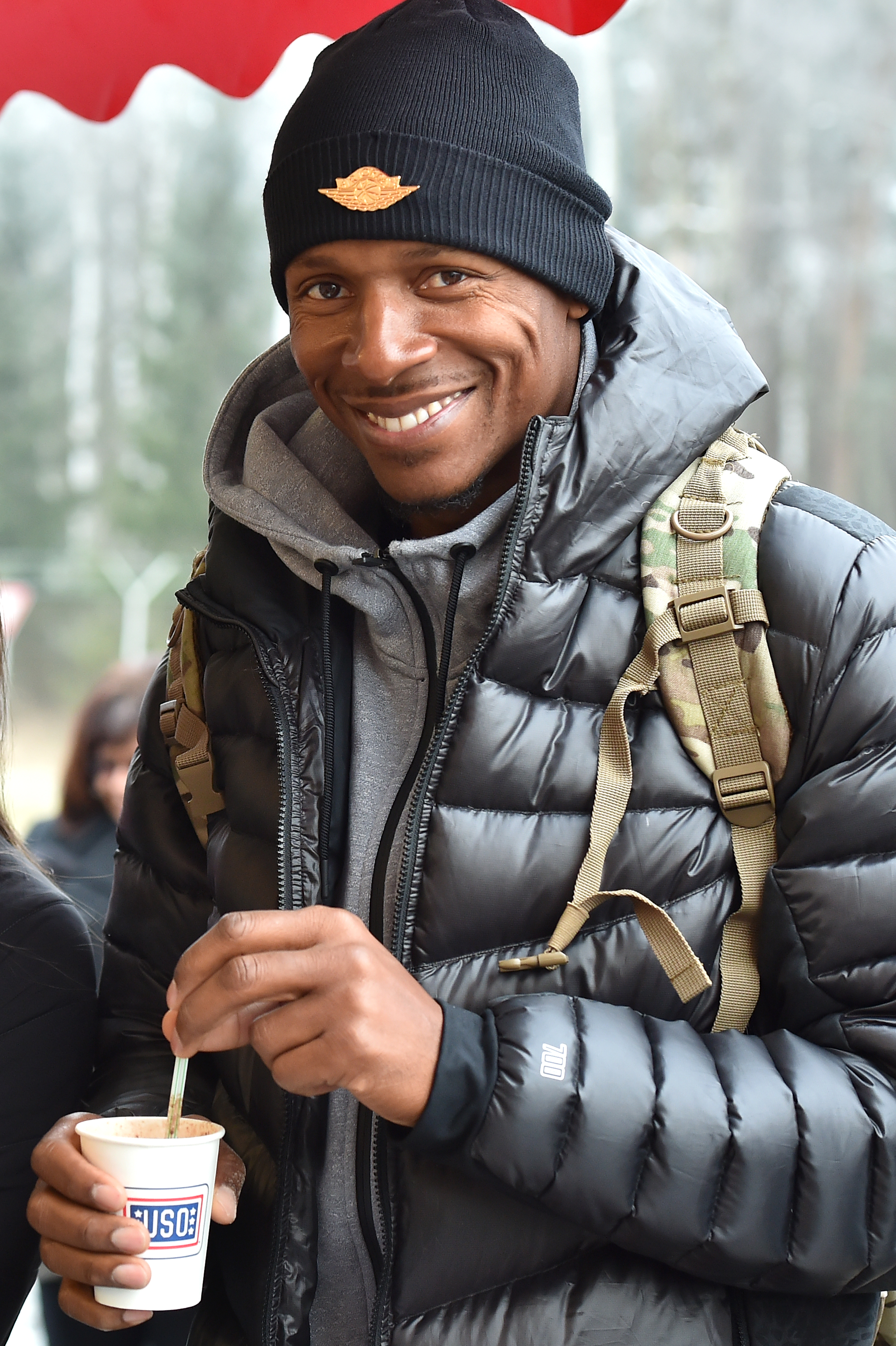 National Basketball Association (NBA) legend Ray Allen, warms up with hot chocolate during this year’s United Services Organizations (USO) Holiday Tour at the 7th Army Training Command’s Grafenwoehr, Germany, Dec. 8, 2016. The chairman of the Joint Chiefs of Staff, U.S. Marine Corps Gen. Joe Dunford, and his senior enlisted advisor, Army Command Sgt. Maj. John W. Troxell alongside with USO entertainers, visit service members who are deployed from home during the holidays at various locations across the globe. This year’s entertainers included NBA Legend Ray Allen, 4-time Olympic Medalist Maya DiRado, Country Music Singer Craig Campbell and mentalist Jim Karol. (U.S. Army photo by Visual Information Specialist Gertrud Zach)